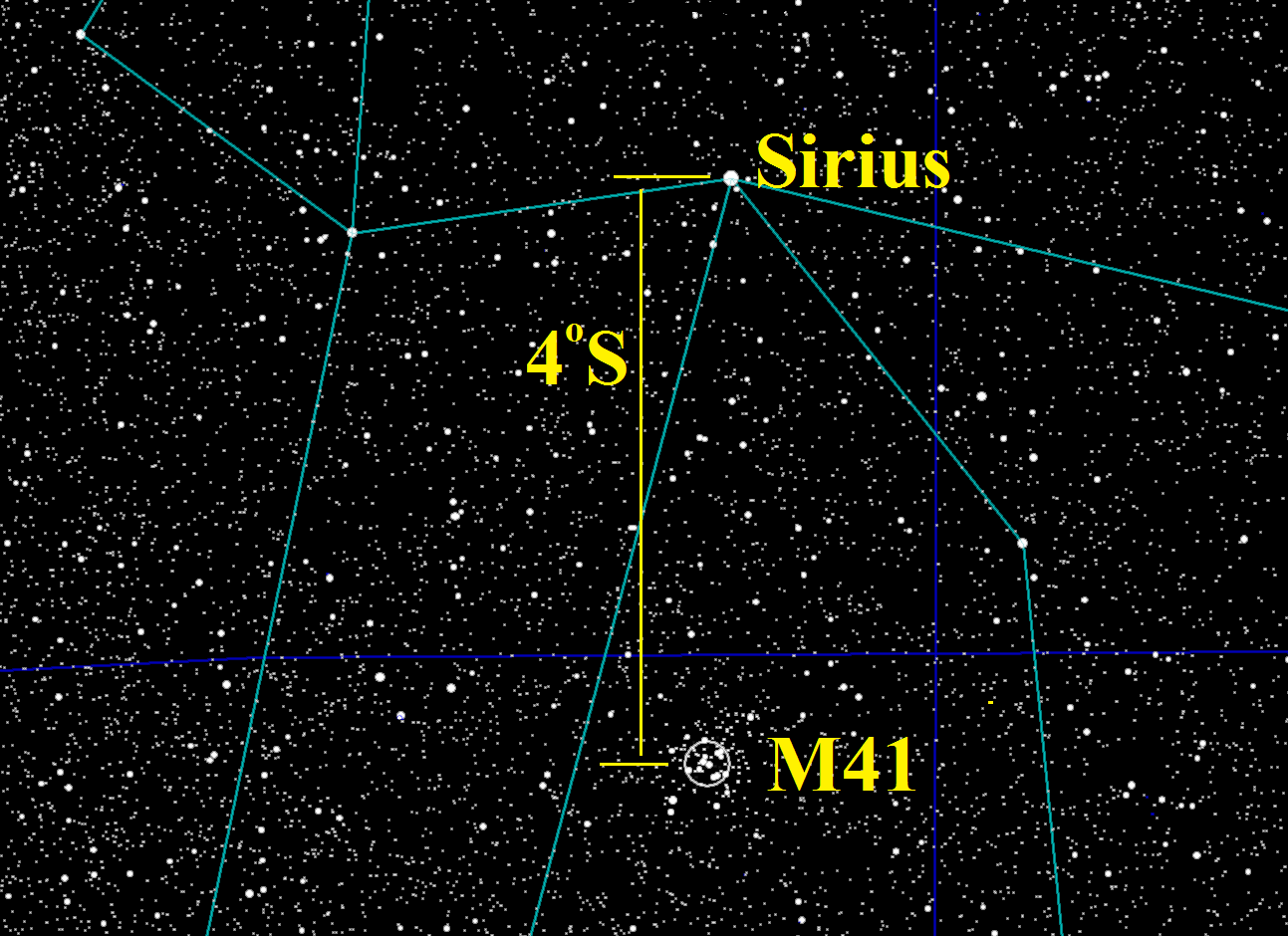 Messier 41 starmap in Canis Major, south of Sirius